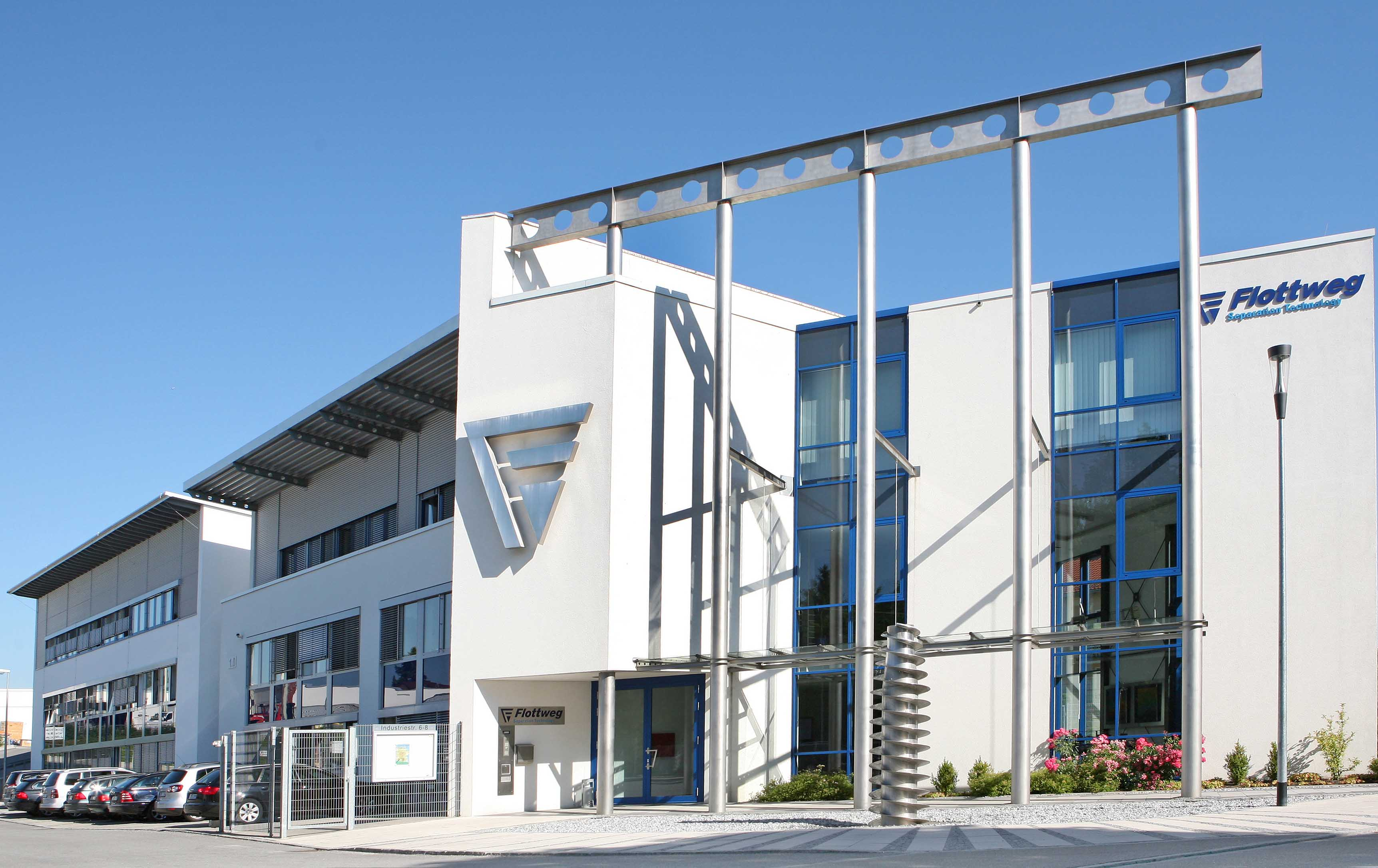 This picture shows the headquarters of Flottweg SE, one of the leading manufacturers of machines and systems for the mechanical liquid-solid separation. The company develops and produces decanter centrifuges (solid-wall scroll centrifuges), separators (disc stack centrifuges) and belt presses.